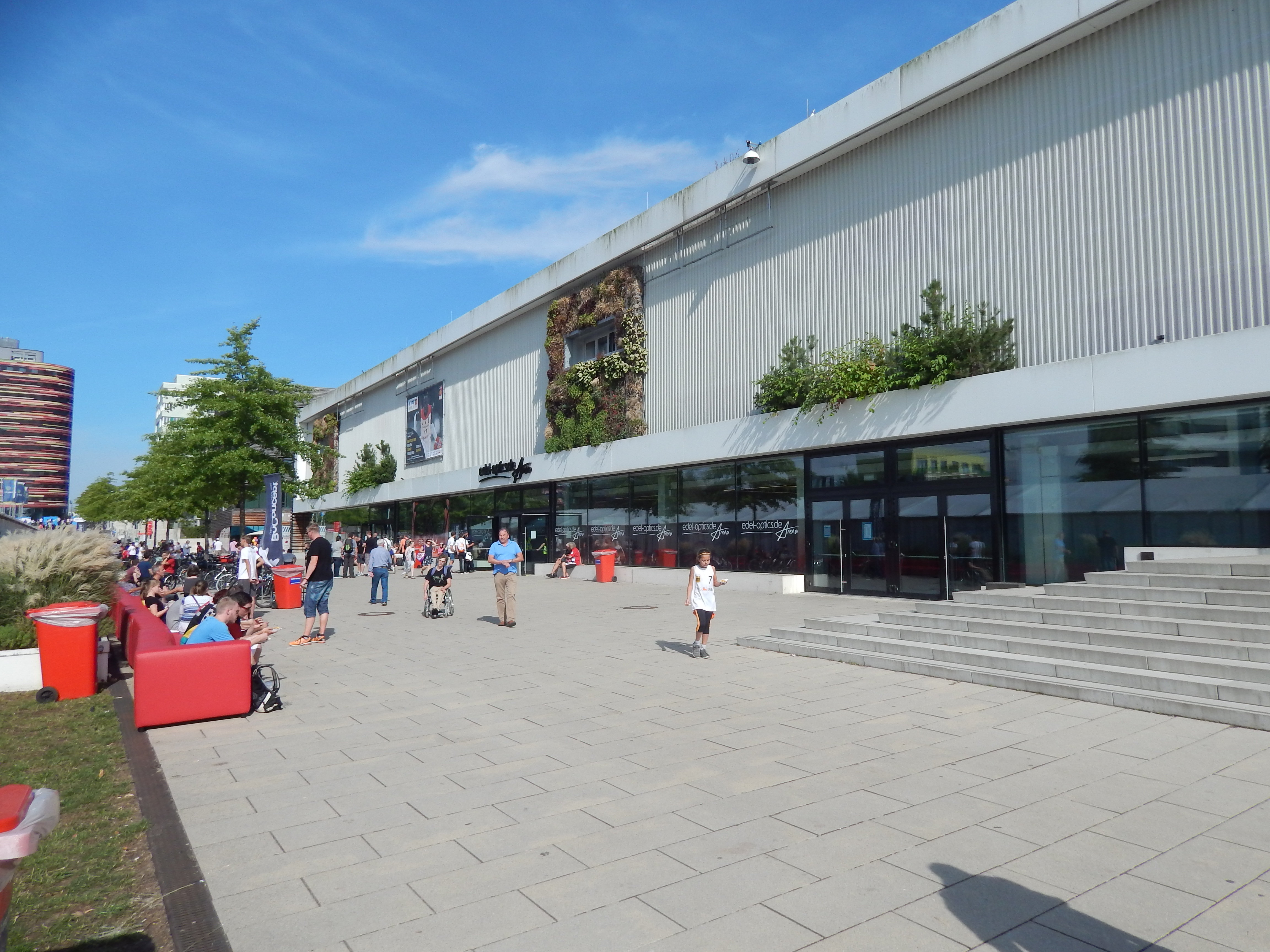 The Edel-optics.de Arena during the 2018 Wheelchair Basketball World Championship